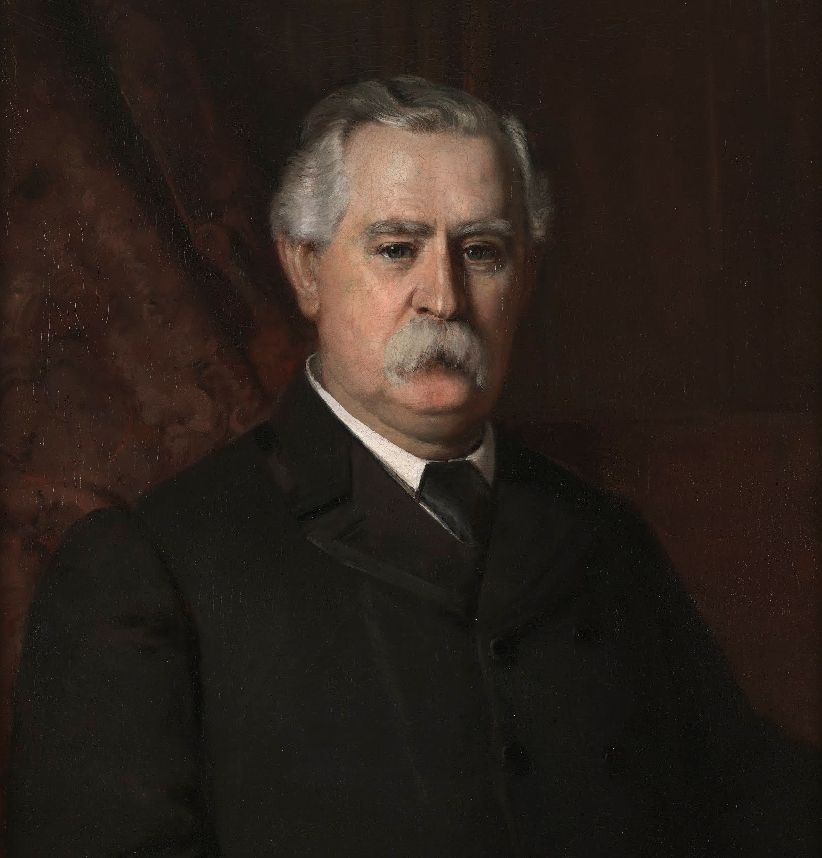 Portrait of Virginia Governor Philip W. McKinney